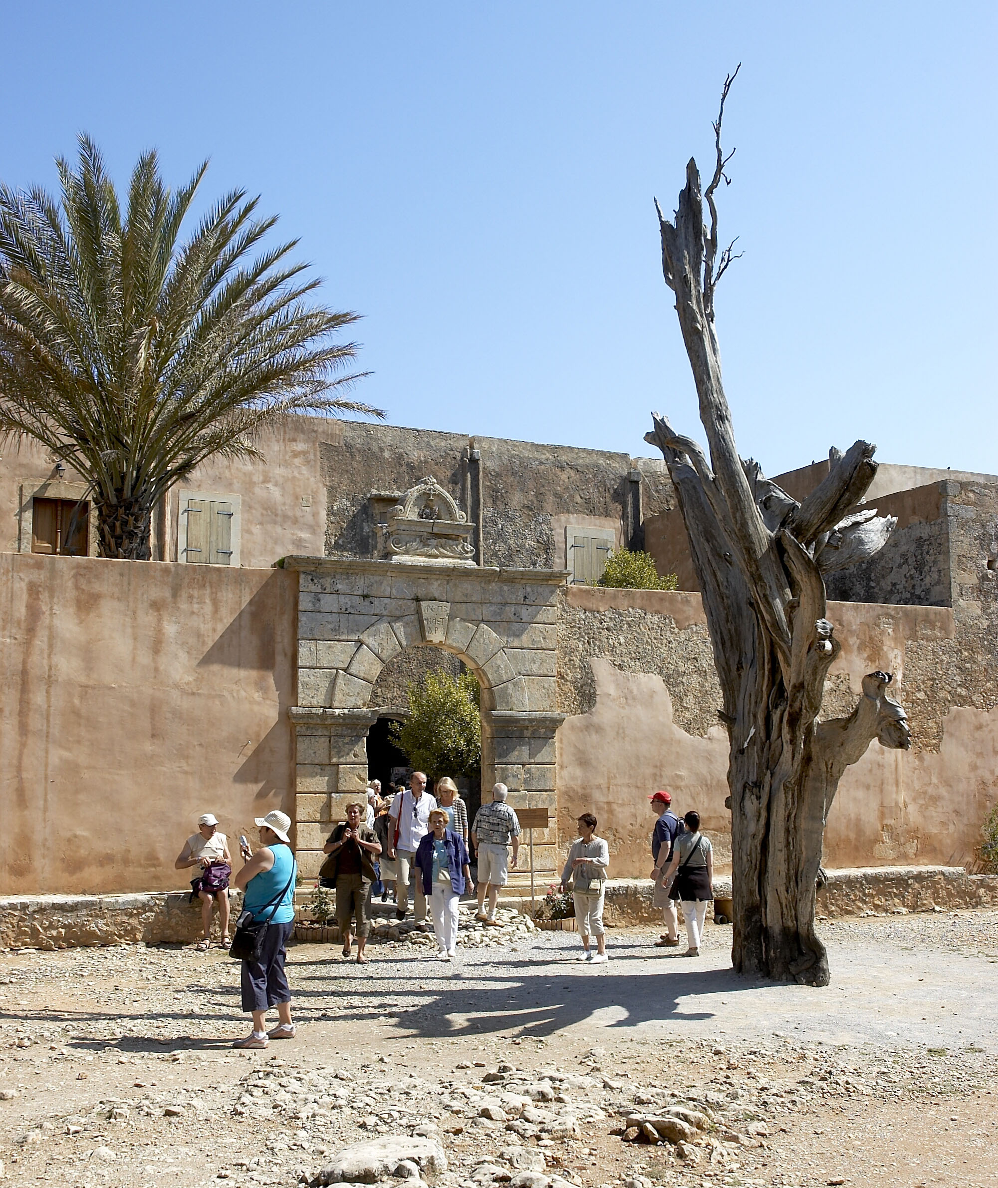 Arkadi Monastery / Moni Arkadiou - Google Maps - Google Earth